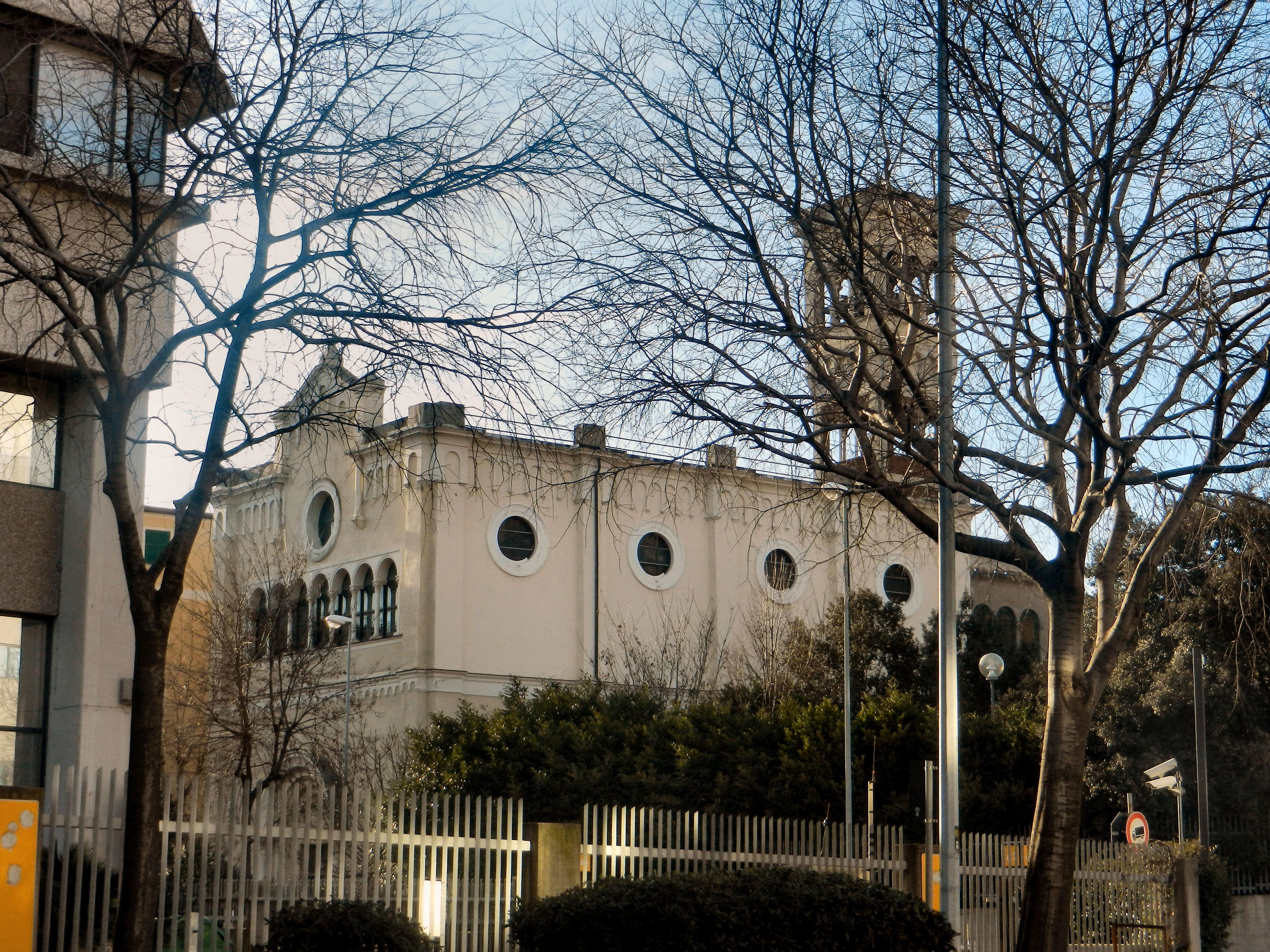 Genoa, Italy, quarter of Cornigliano, church of Our Lady of Lourdes at Campi